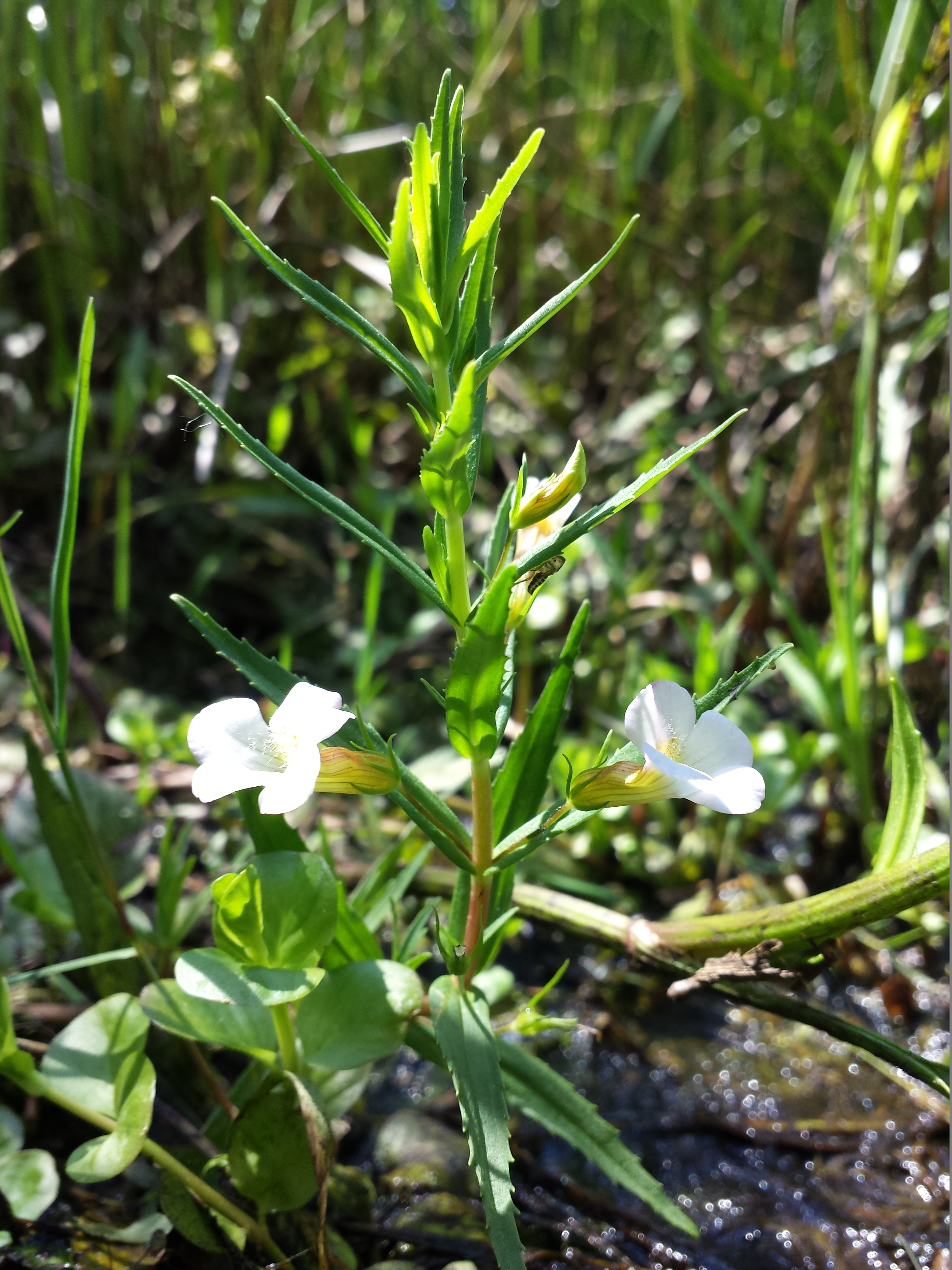 Habitus Taxonym: Gratiola officinalis ss Fischer et al. EfÖLS 2008 ISBN 978-3-85474-187-9; det. Gergely Király 2015-06-05 Location: wetlands near Darány, Somogy County, Hungary - ca. 130 m a.s.l. Habitat: temporarily flooded wood